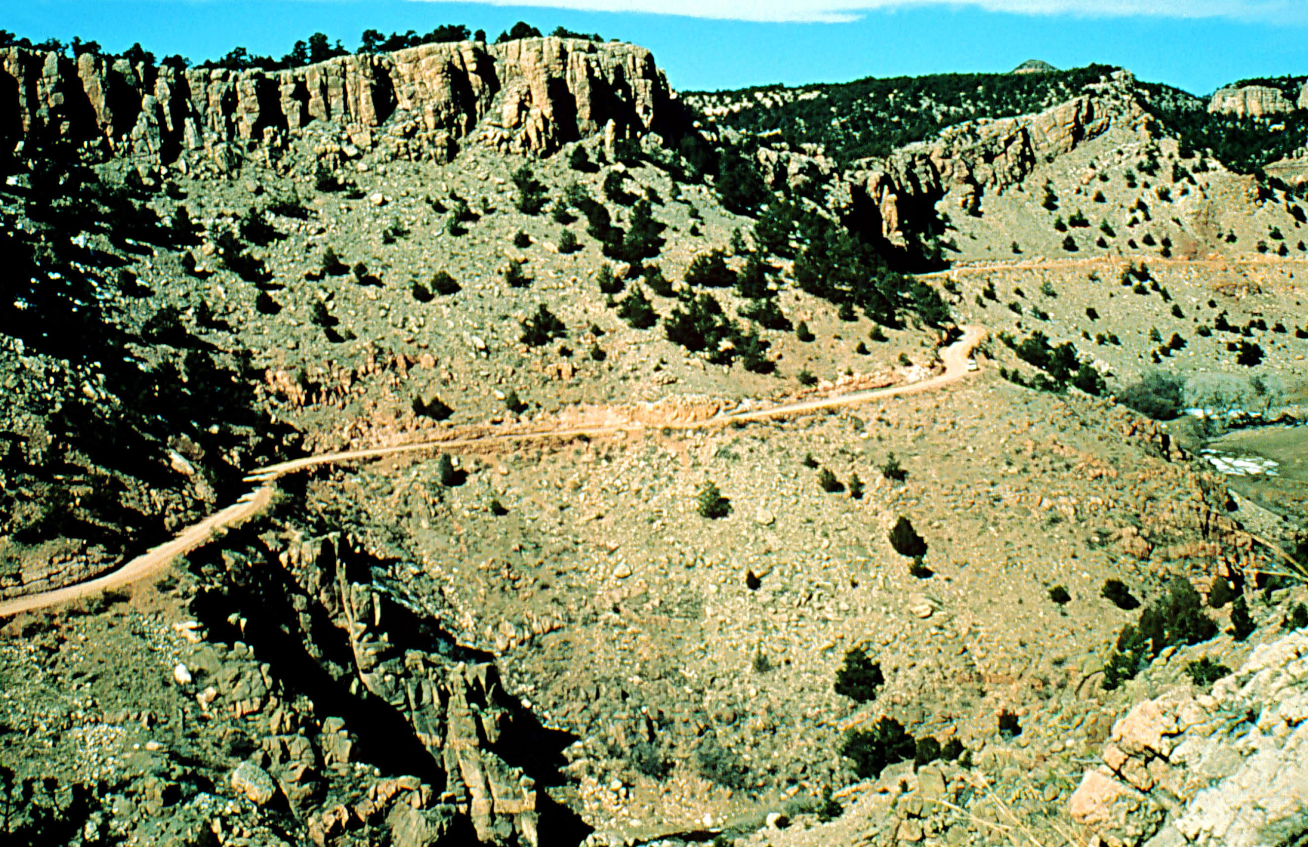 Shelf Road between Cañon City and Cripple Creek, Colorado. Built in the early 1890's and used today as part of the Gold Belt Scenic Byway